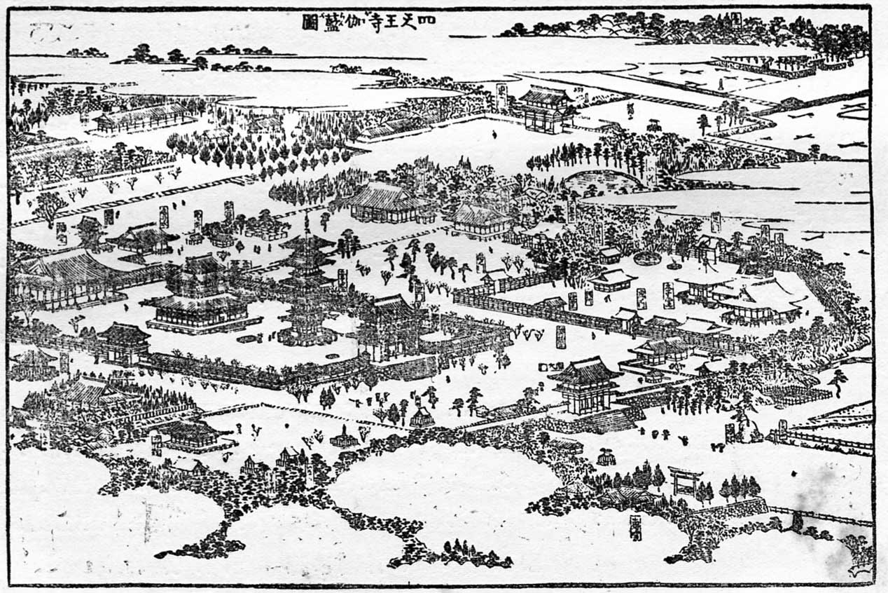 Arial View of Shitennō-ji